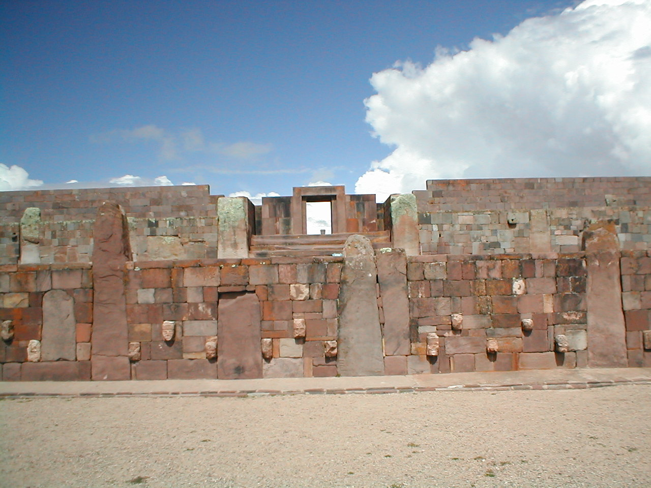 Inkas ruines -Tiwanaku - Bolivia. Location: Bolivia.